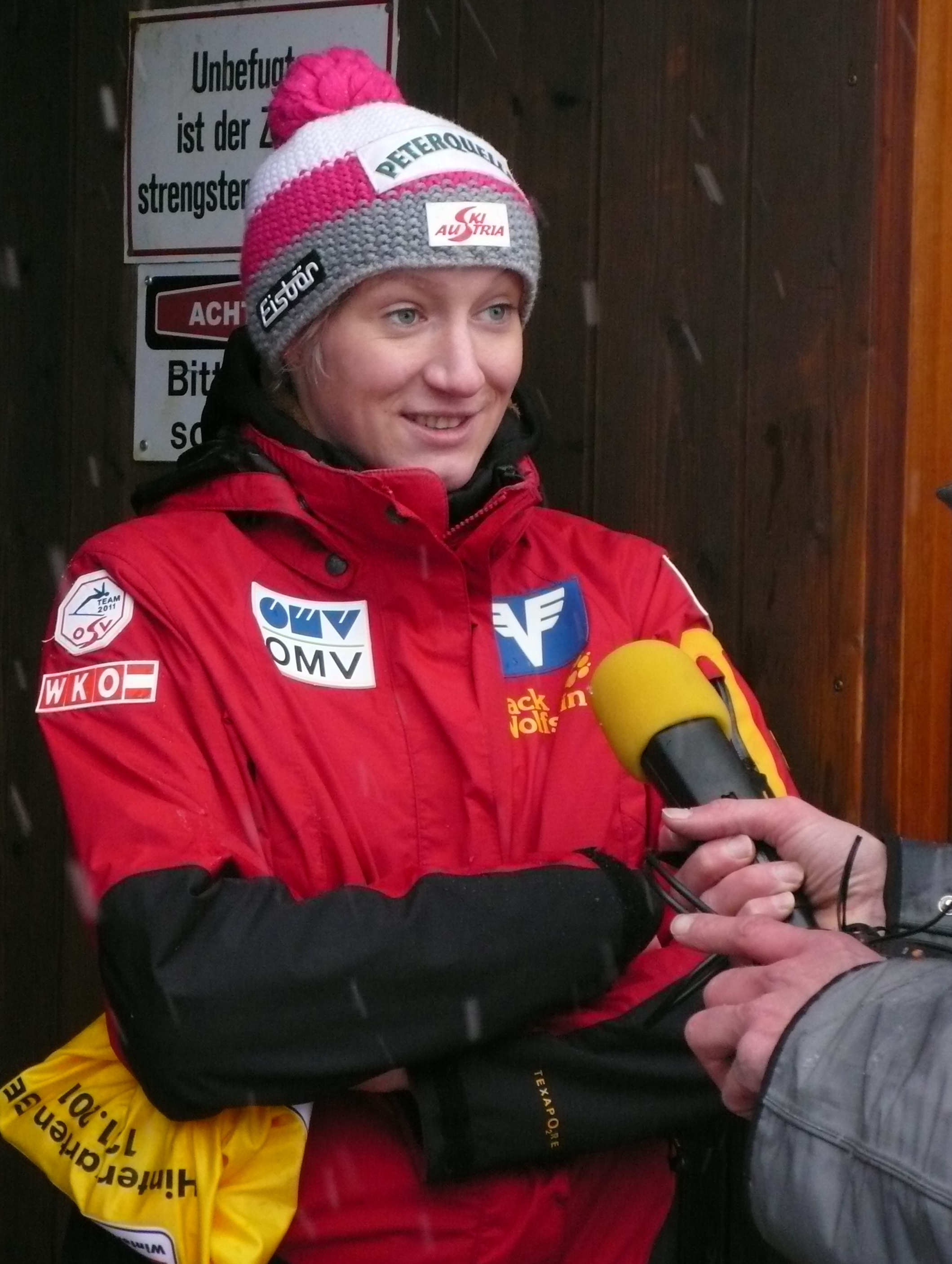 Daniela Iraschko, Hinterzarten